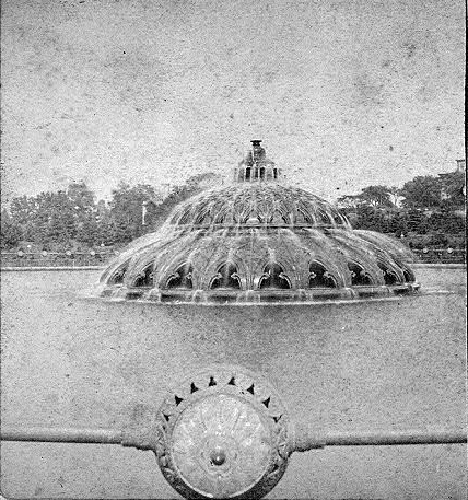 Calvert Vaux's 1874 Plaza Fountain at Grand Army Plaza, Brooklyn NY